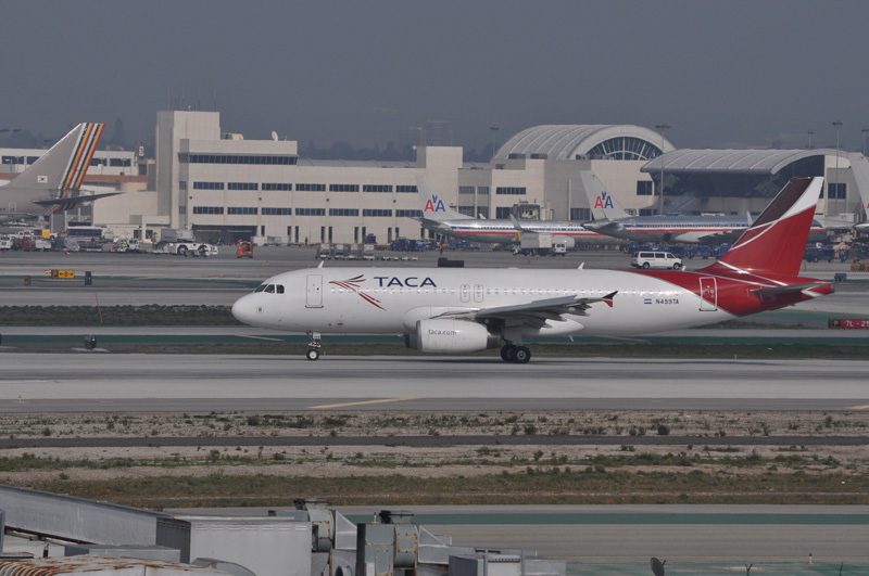 With lots of Central American immigrants in Los Angeles, TACA does operate a fair number of flights to Los Angeles. Here is one. N499TA, Airbus A320-200